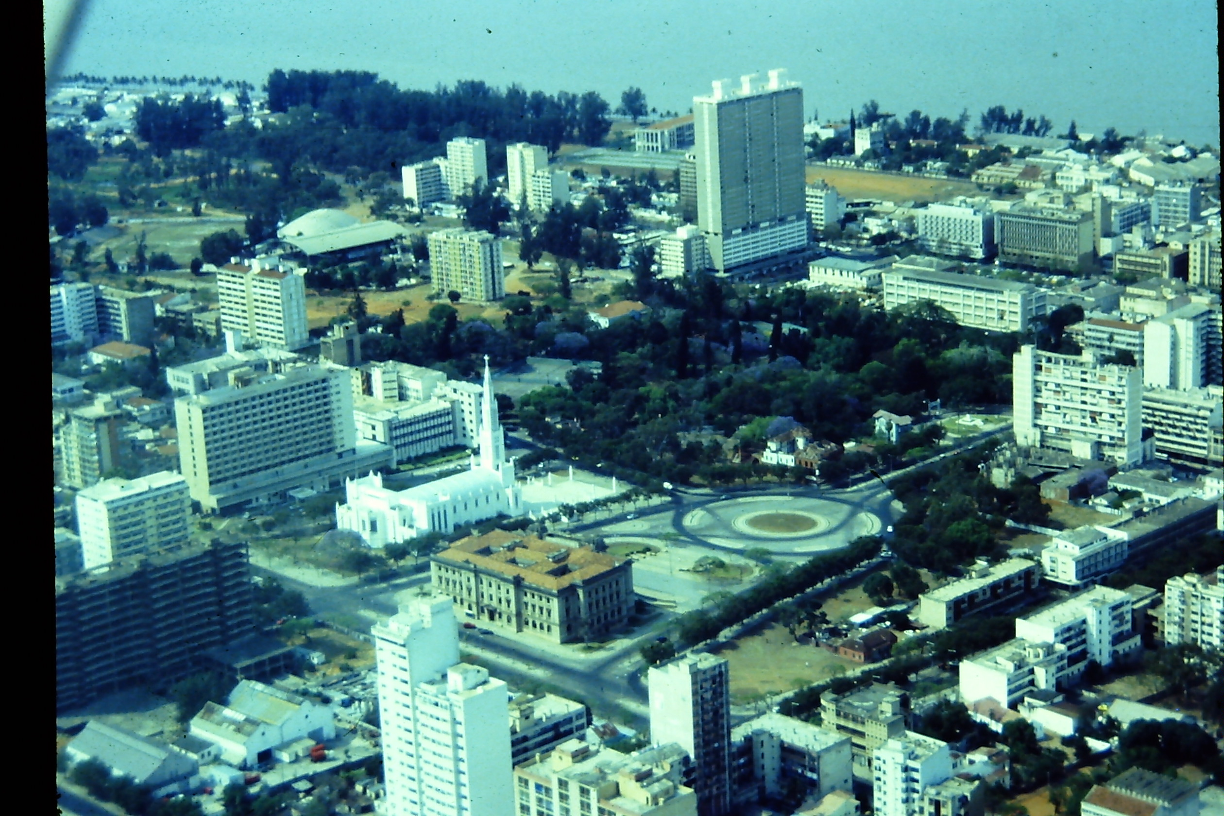 Aerial shot of Maputo, 1990s